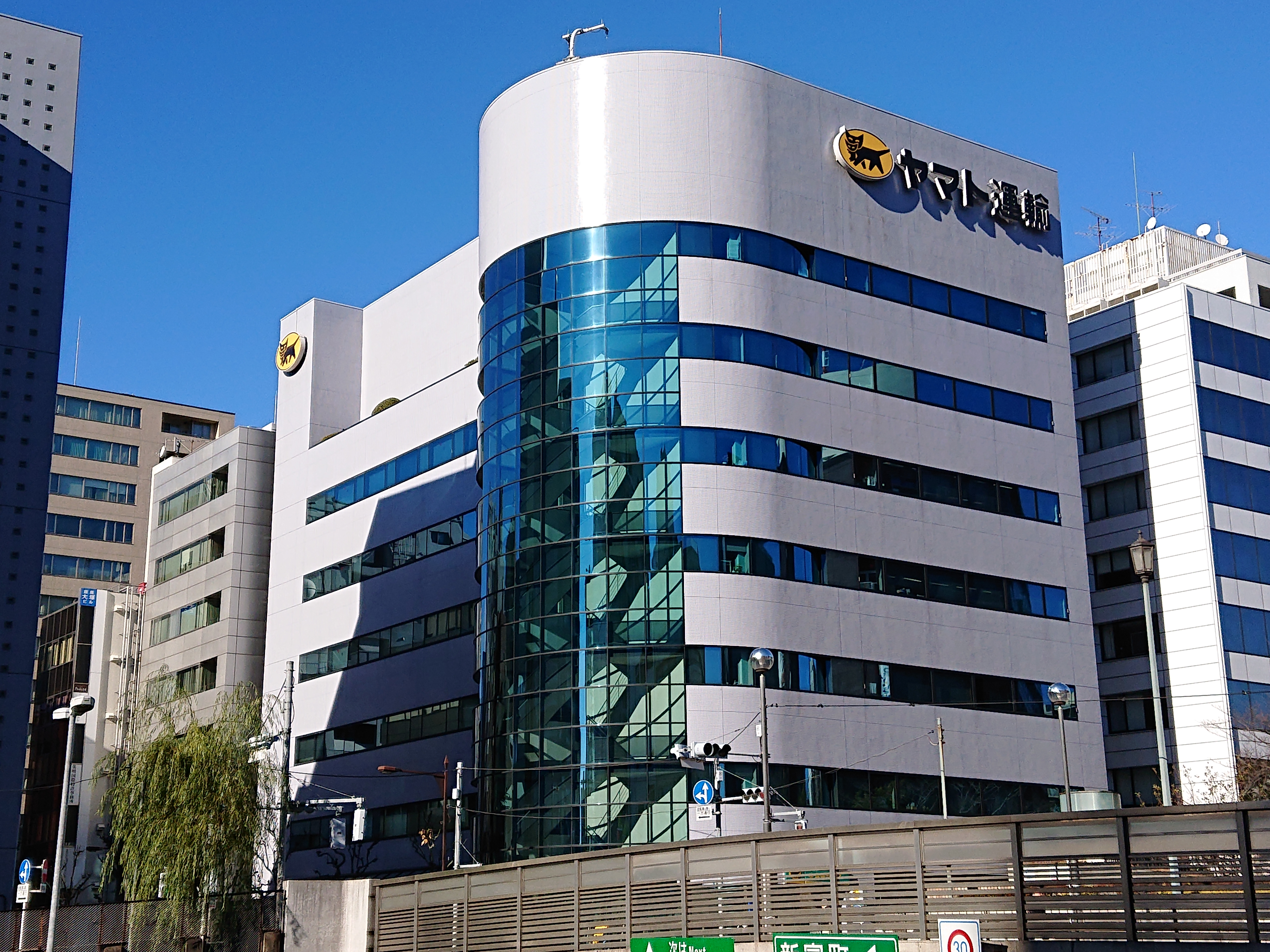 Headquarters of Yamato Holdings Co., Ltd. (ヤマトホールディングス) and Yamato Transport Co., Ltd. (ヤマト運輸), located at 2-16-10 Ginza, Chuo, Tokyo, Japan